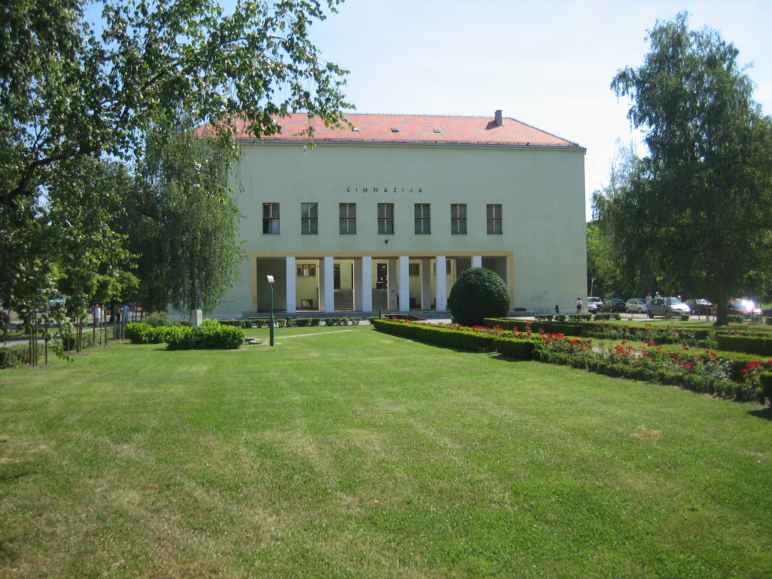 High school building in Sisak, Croatia. 20th cent. / Zgrada sisačke Gimnazije, 20. st.